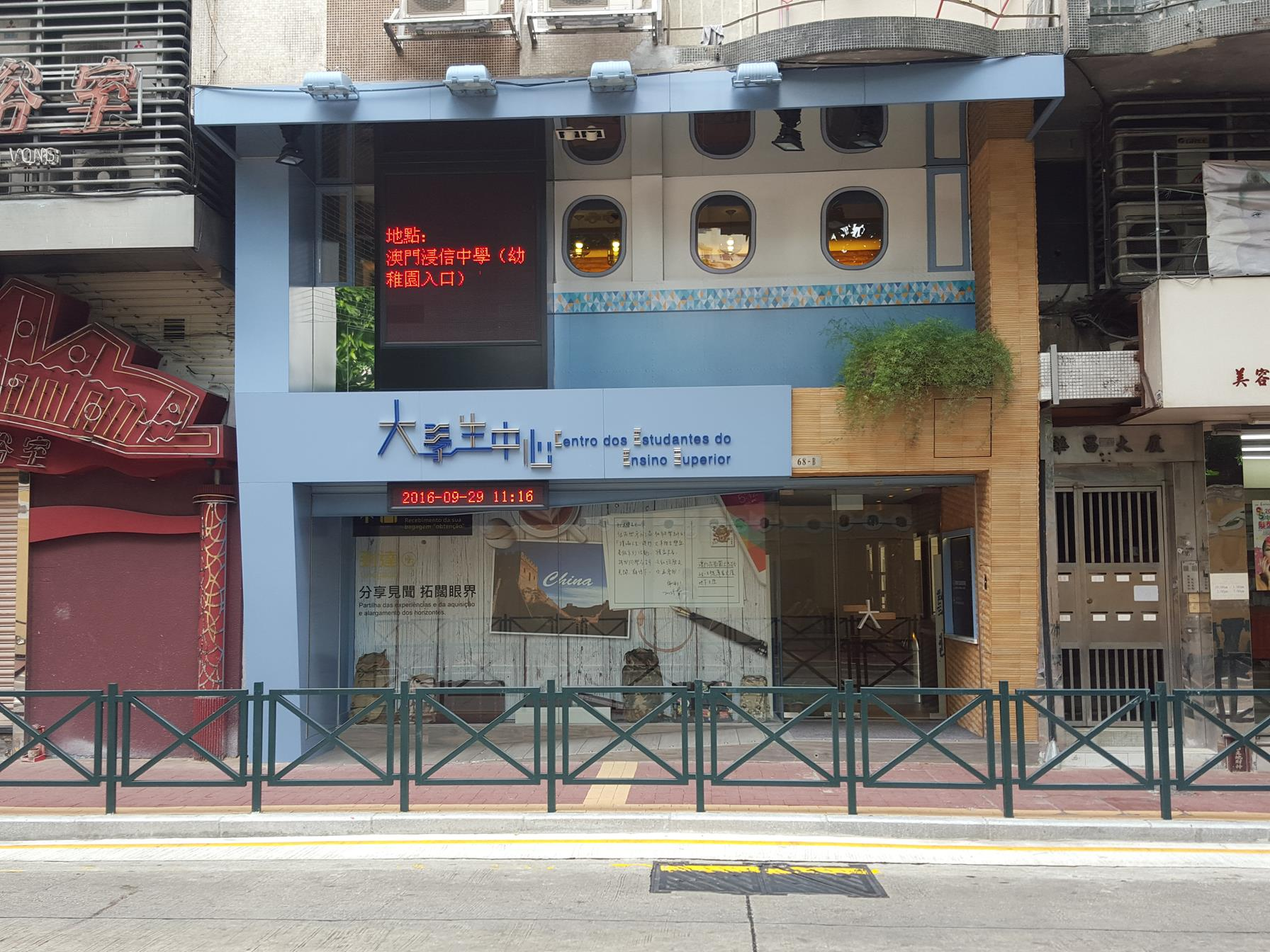 University Student Centre